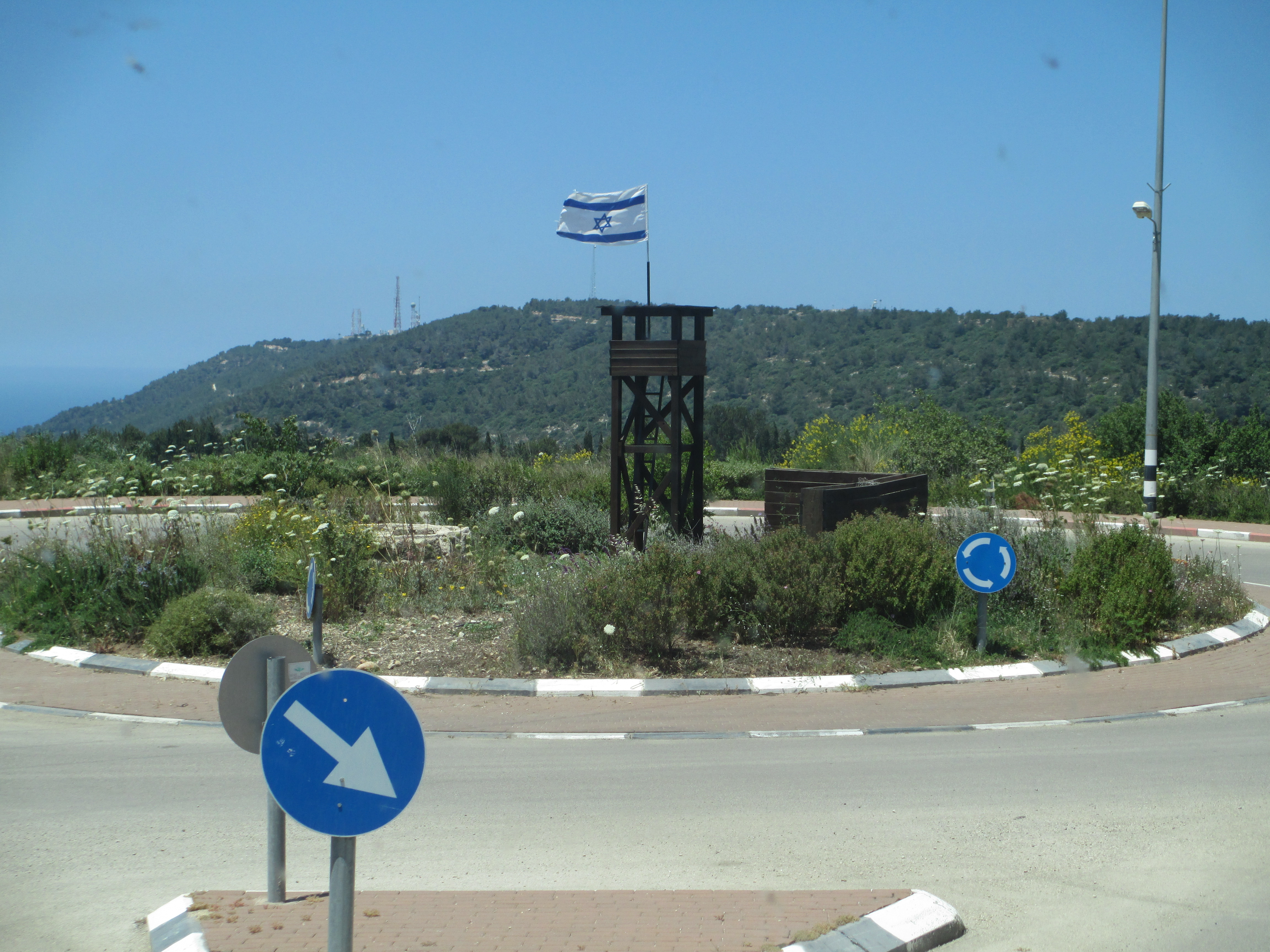 Tower and stockade circle in Kibbutz Hanita